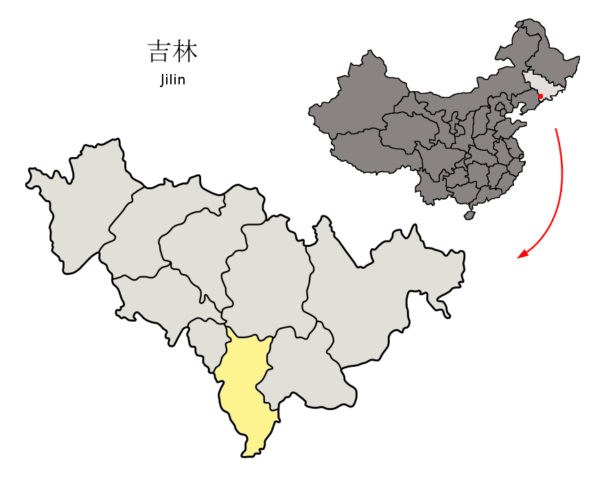 Location of Tonghua Prefecture (yellow) within Jilin Province of China Map drawn in november 2007 using various sources, mainly : Jilin Province administrative regions GIS data: 1:1M, County level, 1990 Jilin Counties map from